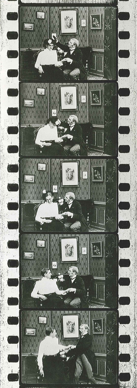 Series of stills from Kärlekens list, a short film produced for the students' carnival at the University of Lund in 1912.